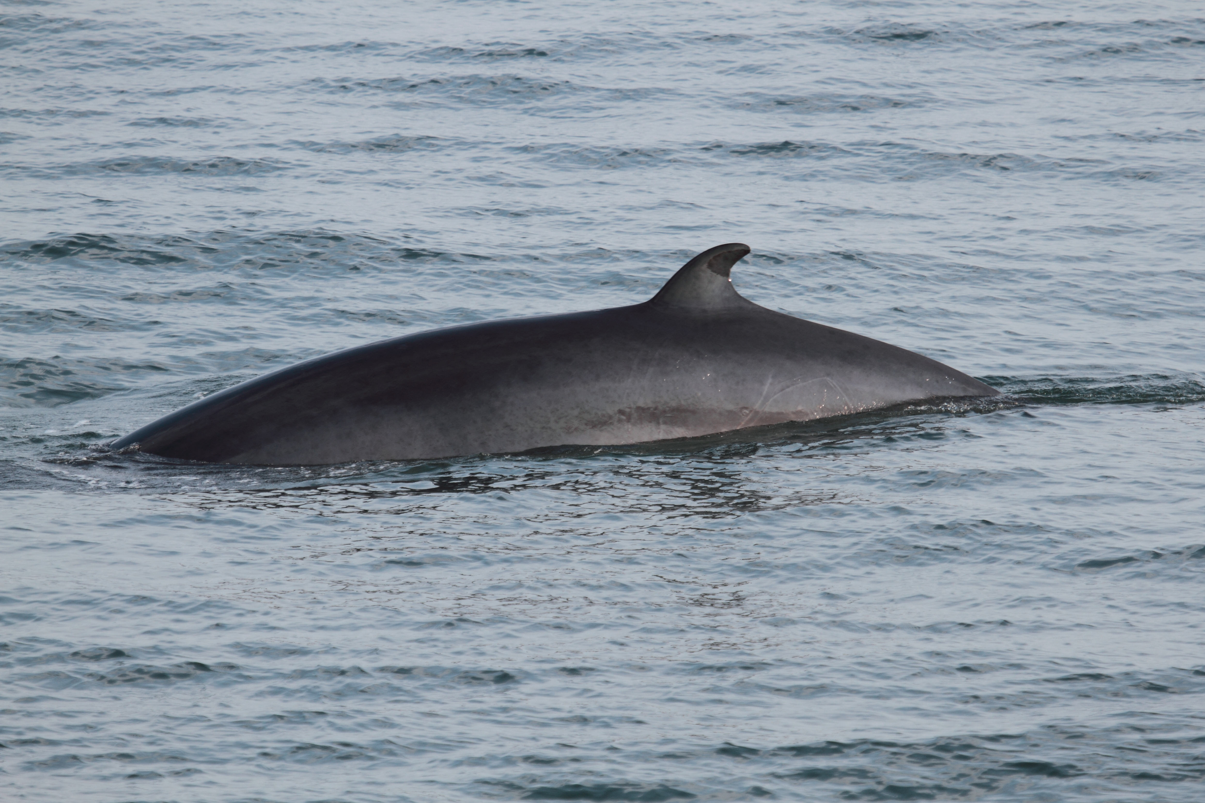 Common minke whale, Cap-de-Bon-Désir, Les Bergeronnes, Quebec, Canada